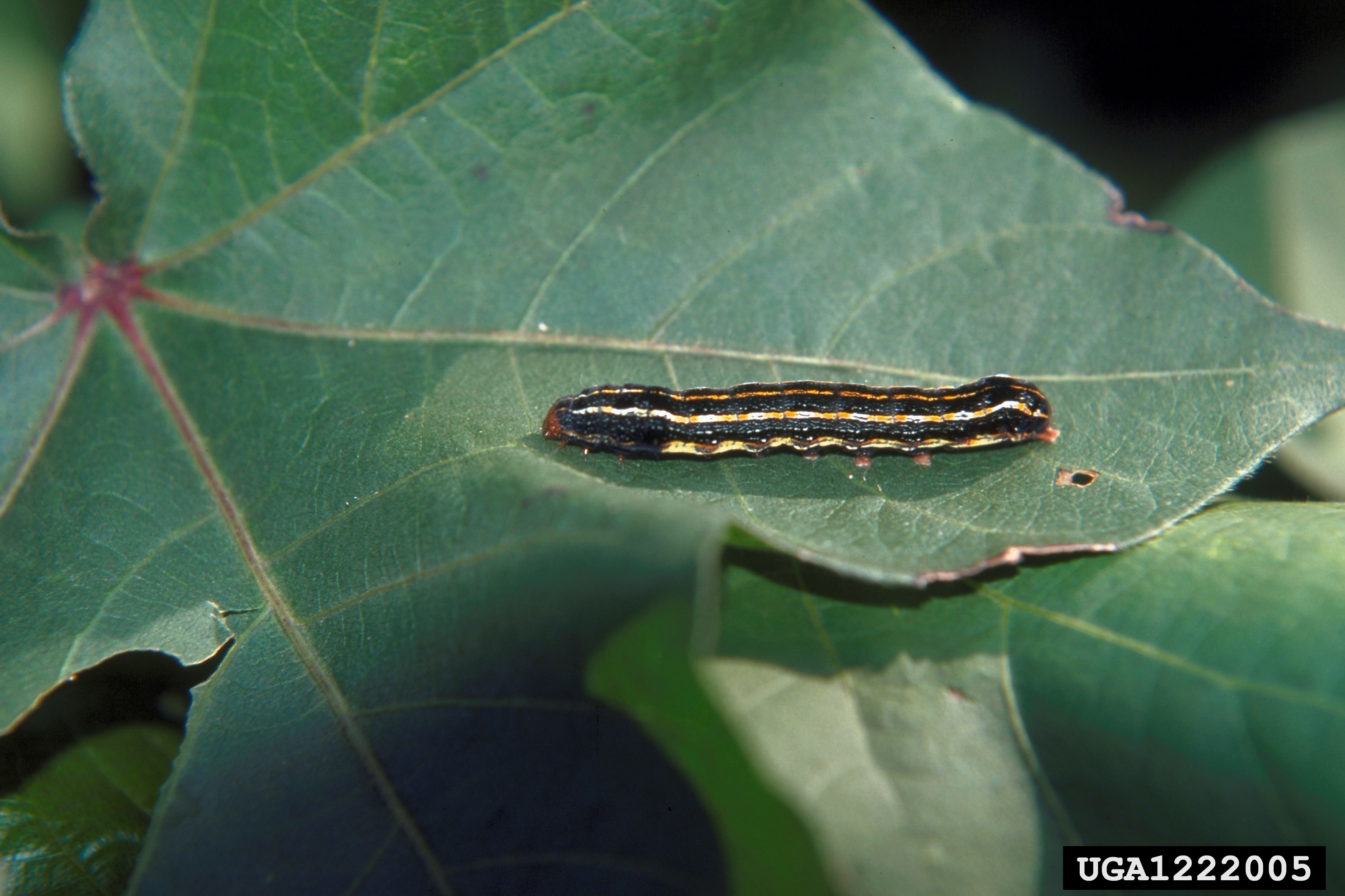 Spodoptera eridania